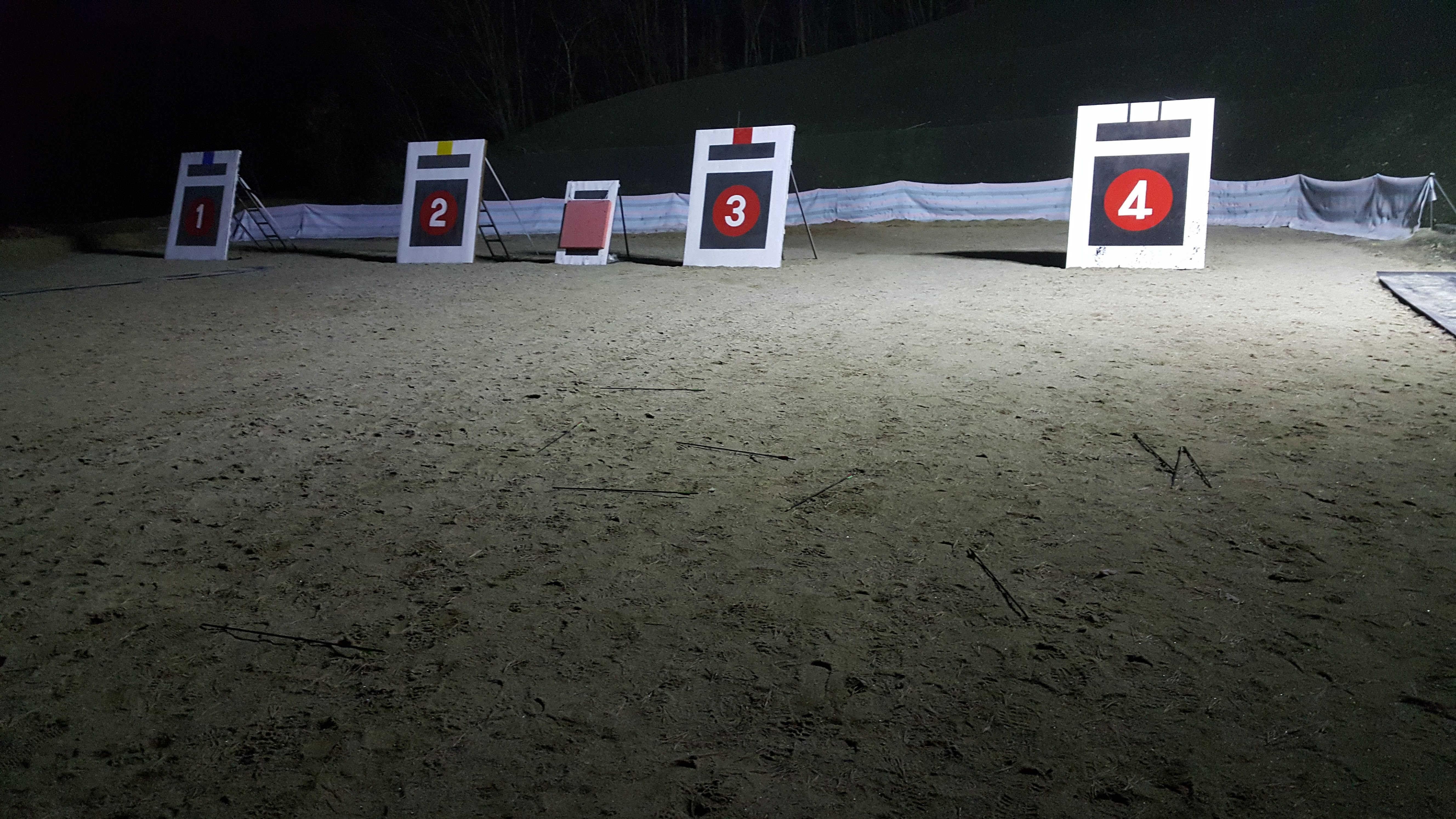 Targets of Gukgung and arrows which hit a target